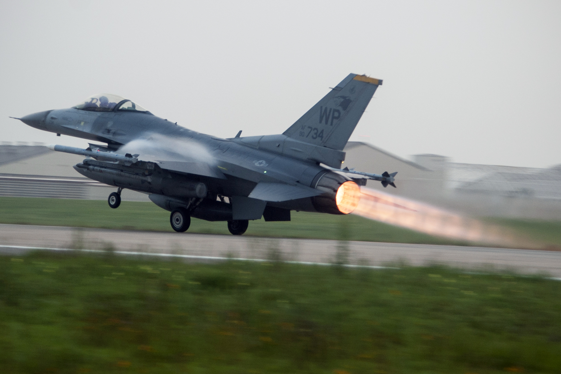 An F-16 Fighting Falcon departs from Kunsan Air Base, Republic of Korea, to attend RED FLAG-Alaska 14-3, Aug. 12, 2014. RF-A enables joint and international partners to sharpen their combat skills by flying simulated combat sorties in a realistic threat environment. These skills are vital to maintaining peace and stability in the Asia-Pacific region. (U.S. Air Force photo by Senior Airman Taylor Curry/Released)